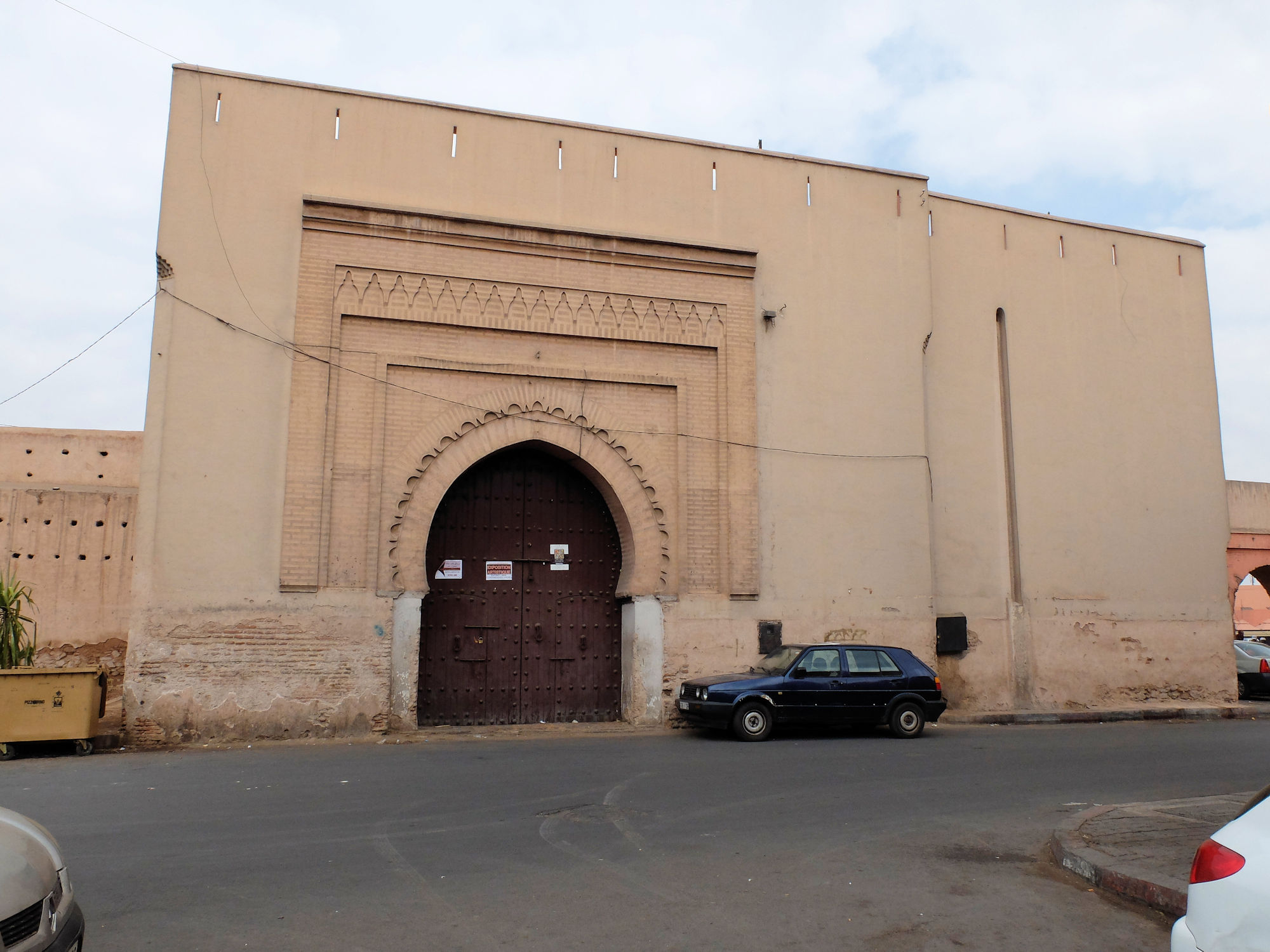 Bab Doukkala, the northwestern gate of the medina of Marrakech.